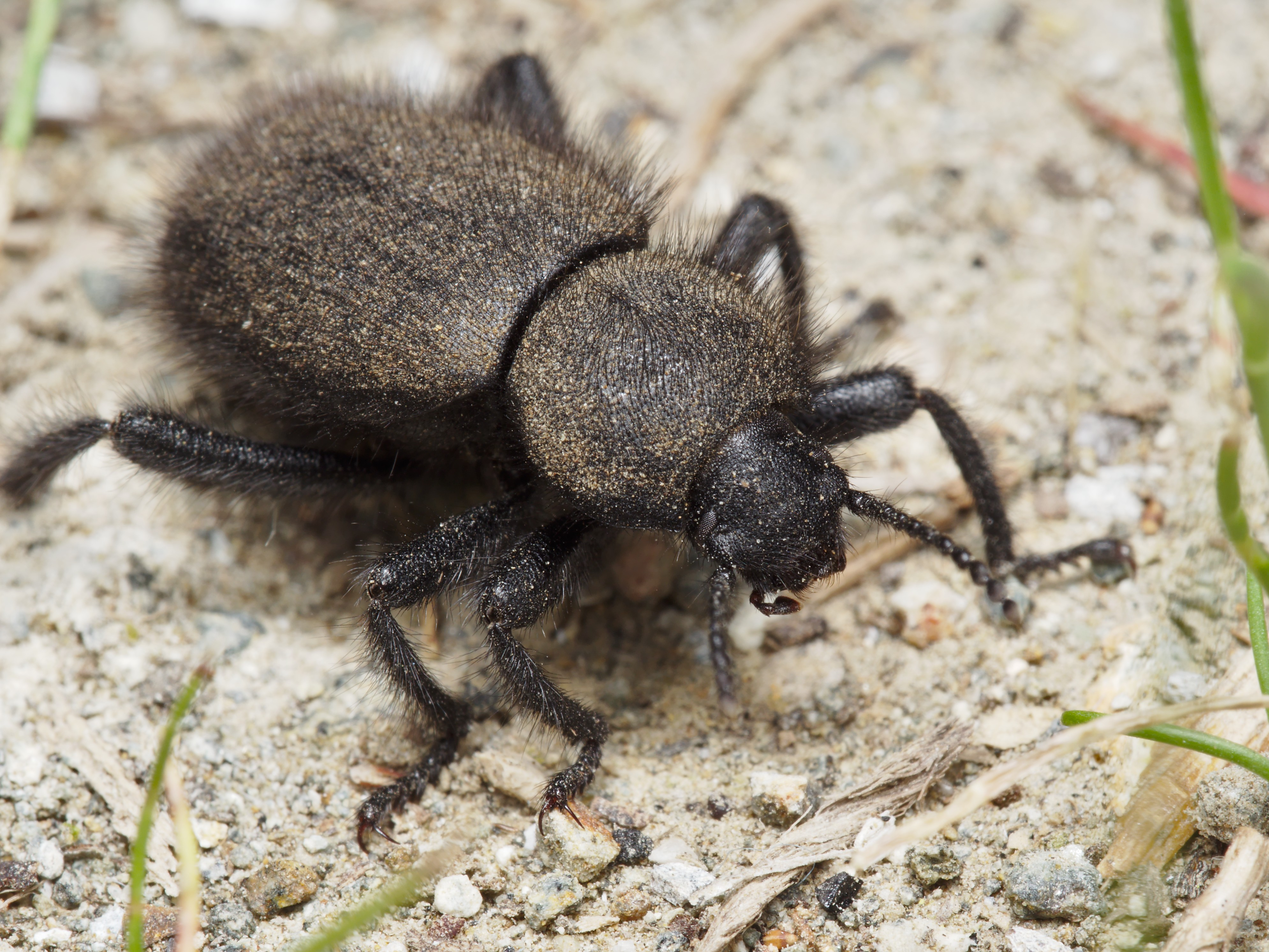 Wooly Darkling Beetle, Eleodes osculans, Kern County